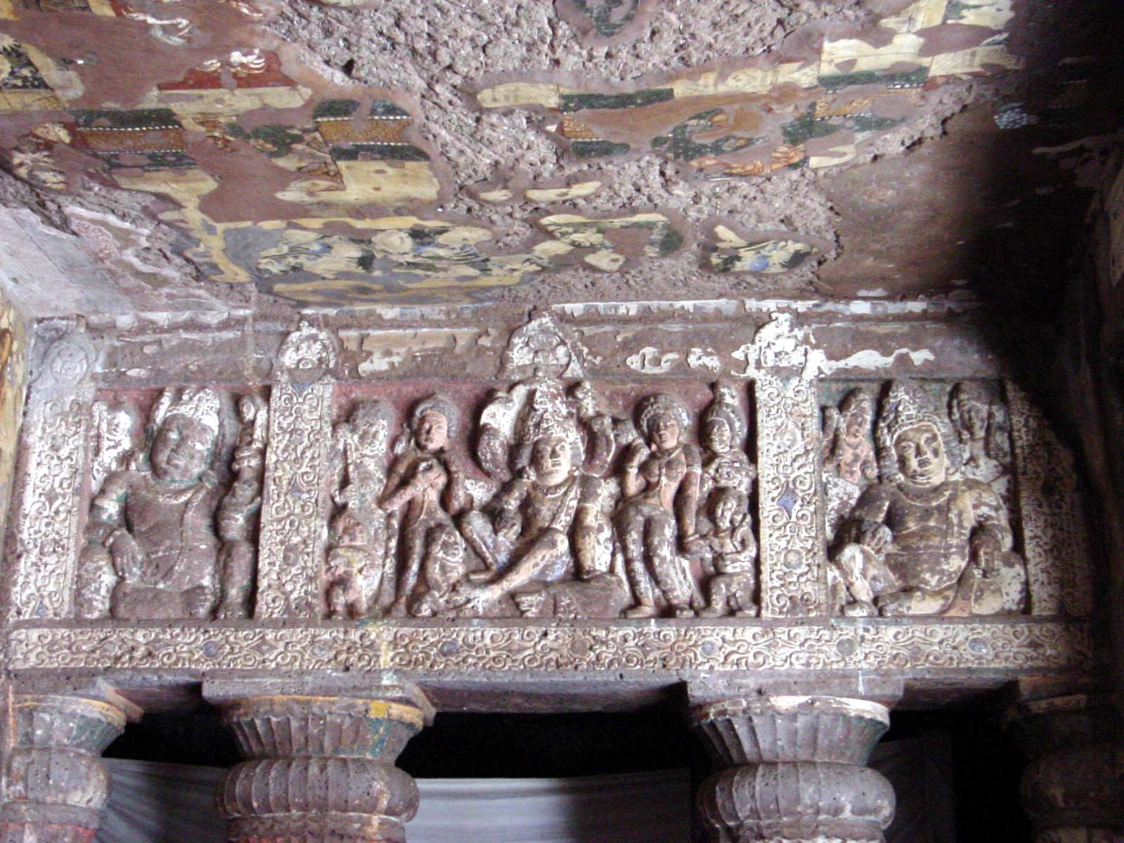 This lintel surmounts the entrance to the right portico shrine of Cave 2. It portrays a king, flanked by his family, and yaksha attendants. Paint remains on the ceiling; the lintel, too, was probably painted.